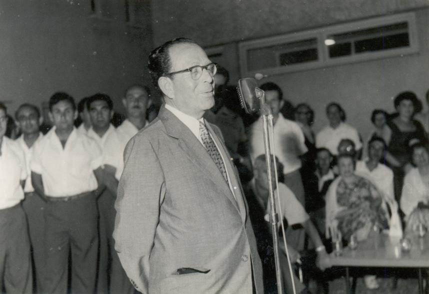 Speaker of the Knesset, Moshe Rosetti, speaks on the Knesset's 4th birthday, 1953